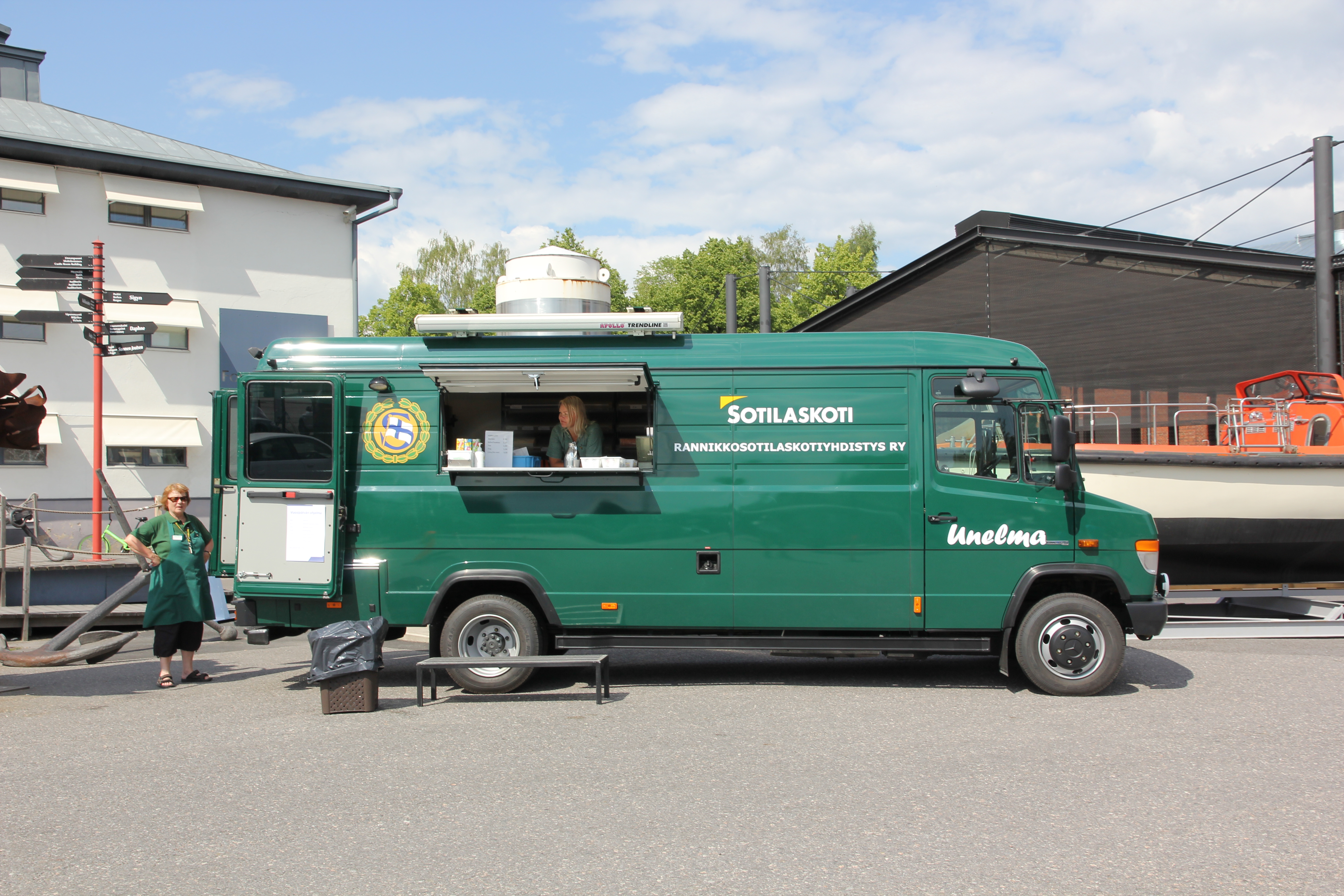 Soldier's home (sotilaskoti) mobile canteen in Turku during Finnish Navy 2014 anniversary.